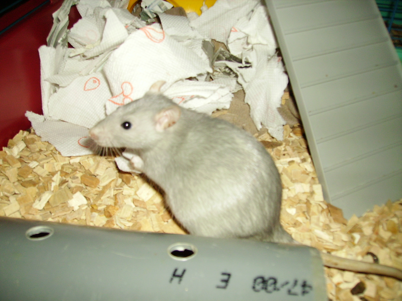 Pregnant rat, building a nest Photo: tinneke (